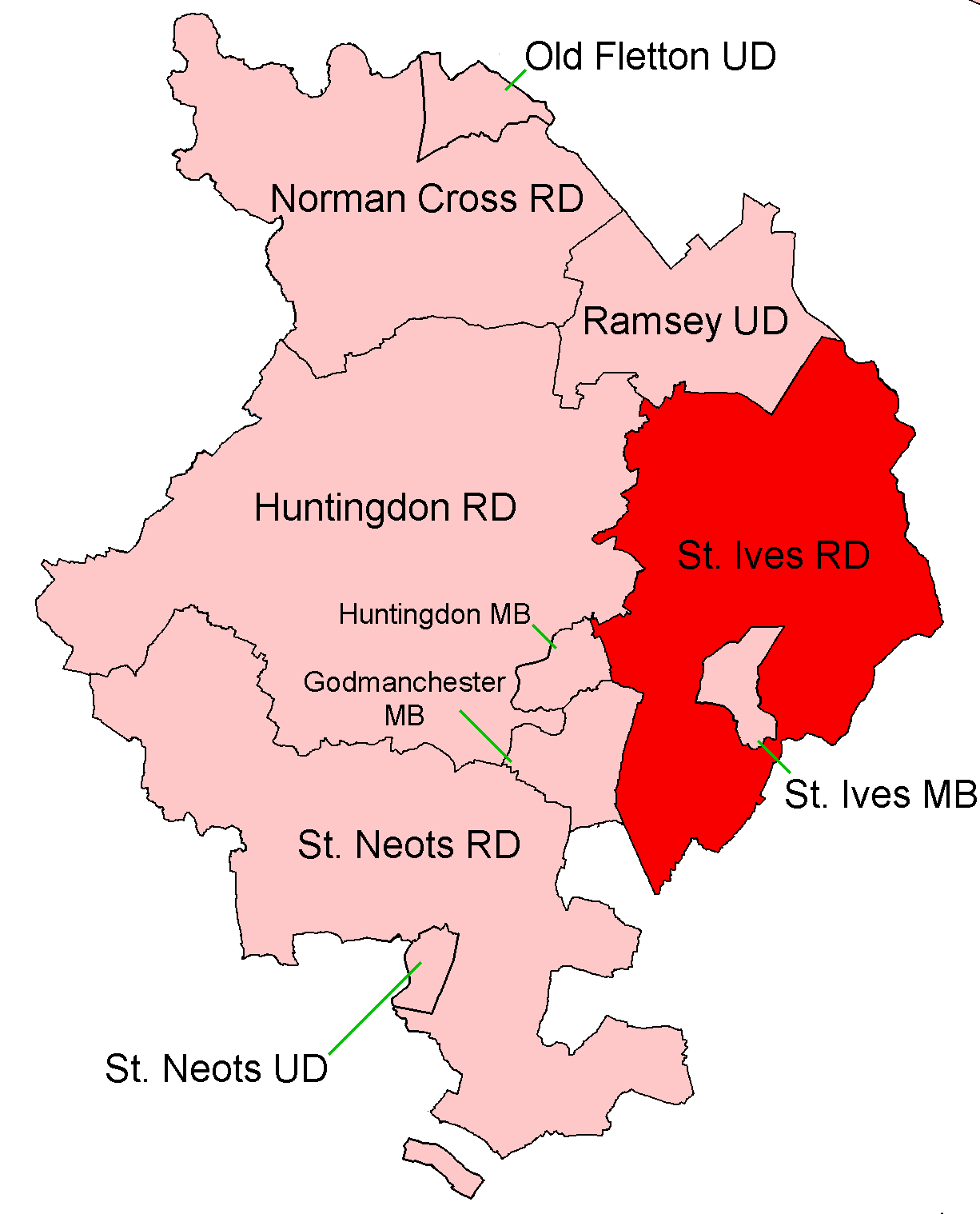 St Ives Rural District, shown within the administrative county of Huntingdonshire. All boundaries shown are correct for the period between 1935 and 1965 (except that Huntingdon & Godmanchester MBs merged in 1961).